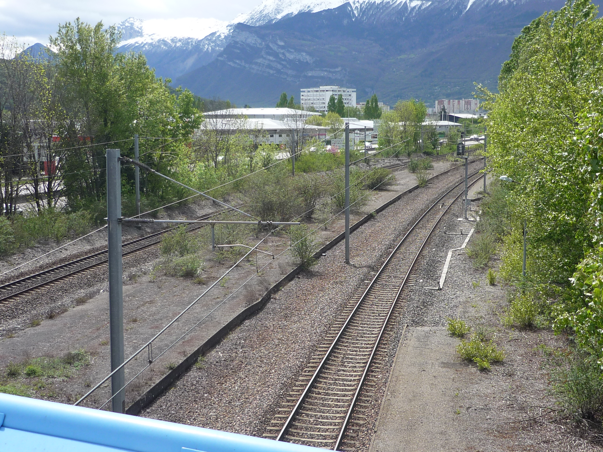 Remnants of Grenoble-Olympique train station, Eybens, Isère, France